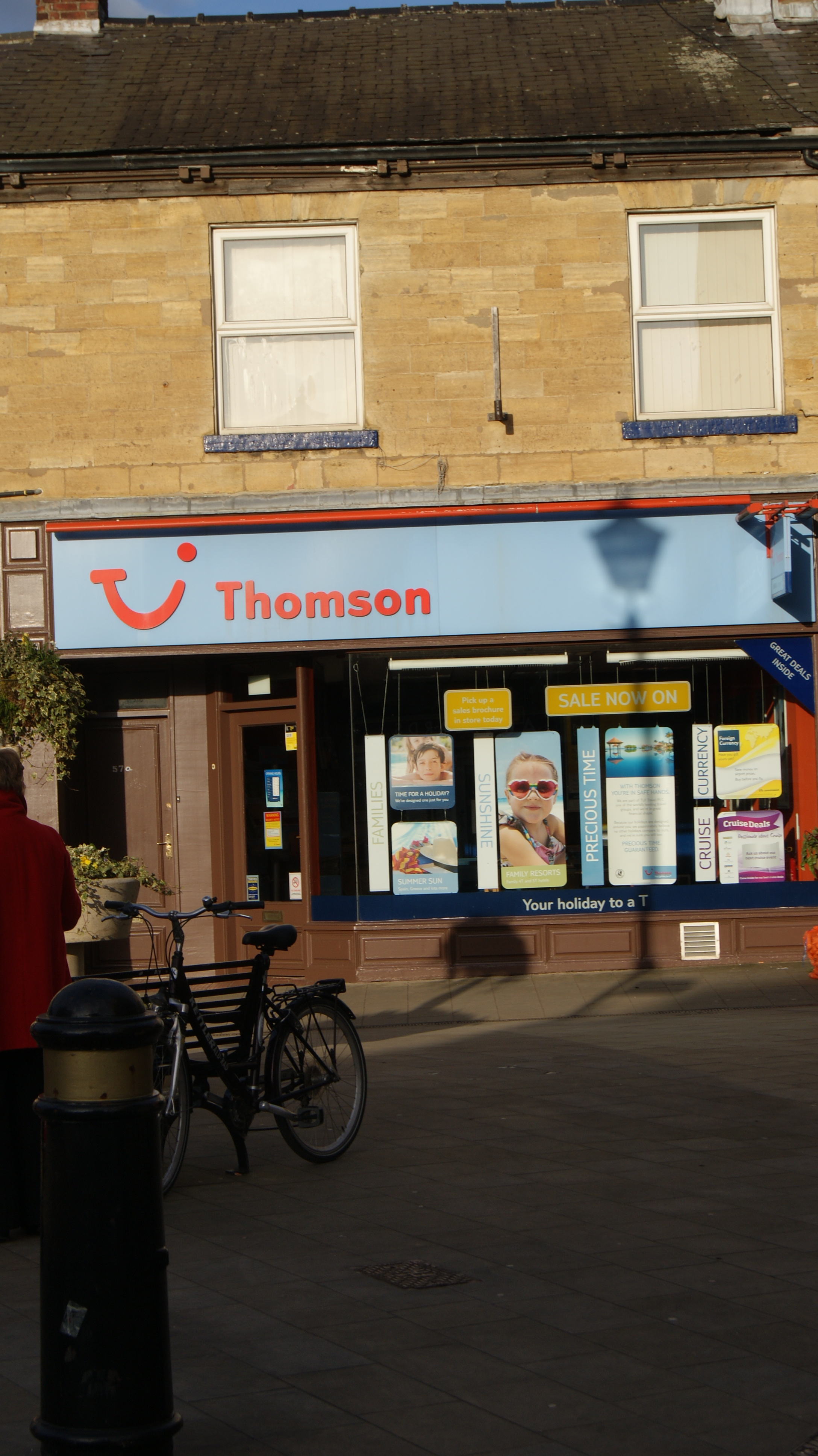 Thomson travel agents, Market Place, Wetherby, West Yorkshire. Taken on the afternoon of Wednesday the 1st of February 2012.